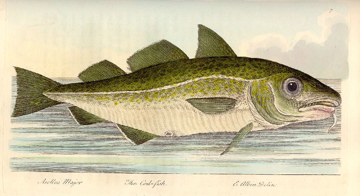 Asellus Major; The Cod-Fish E. Albin Delin Subject: Codfish Tag: Fish